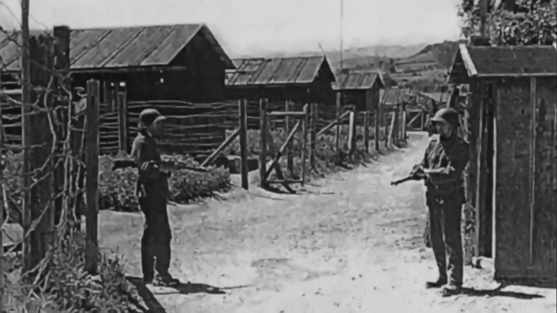 Wauwilermoos internment camp, entrance area and Swiss Army guards probably in 1944, Egolzwil-Wauwil, Canton of Luzern.